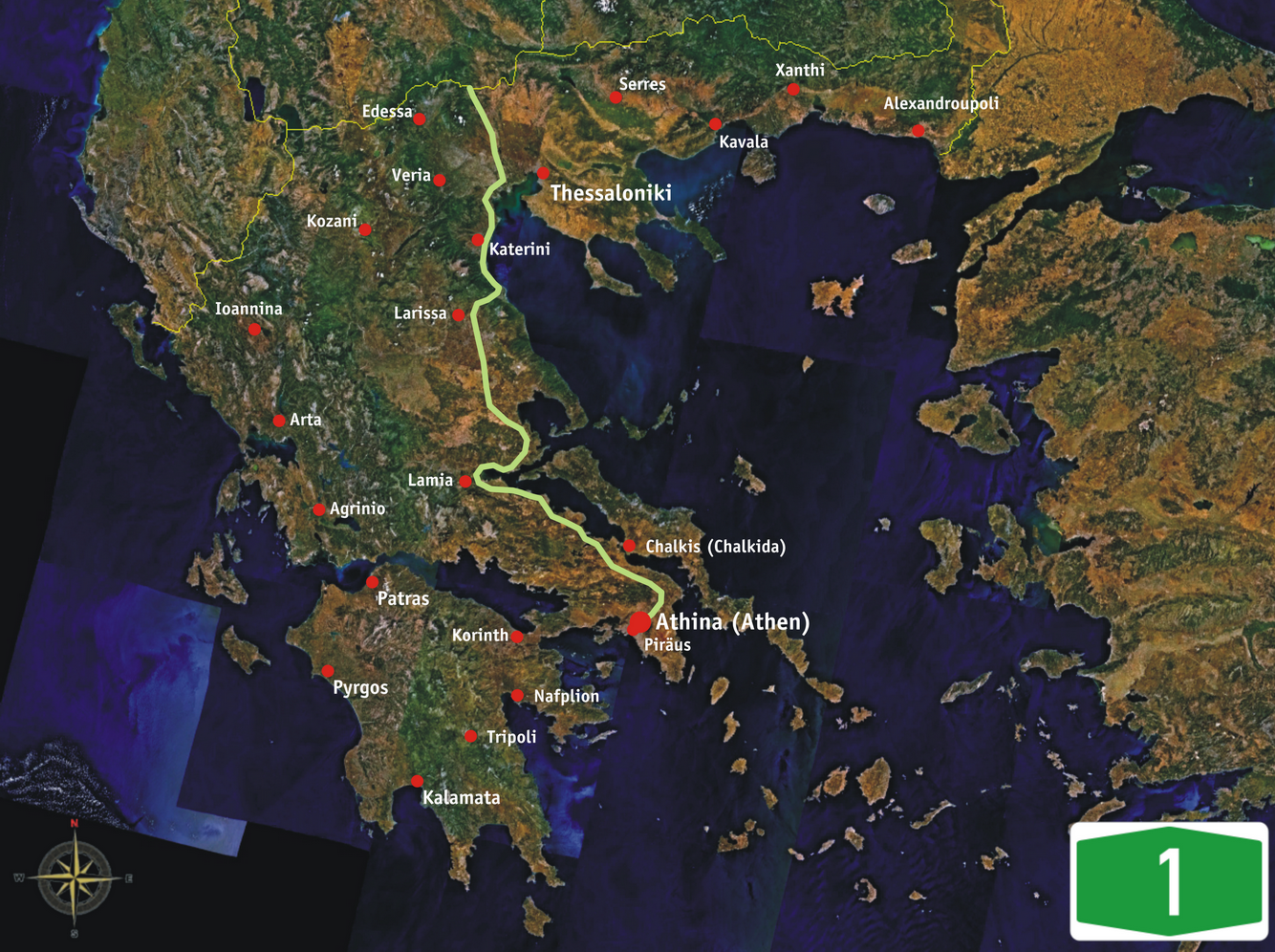 Course or track of Greek Motorway (avtokinetodromos) A1.